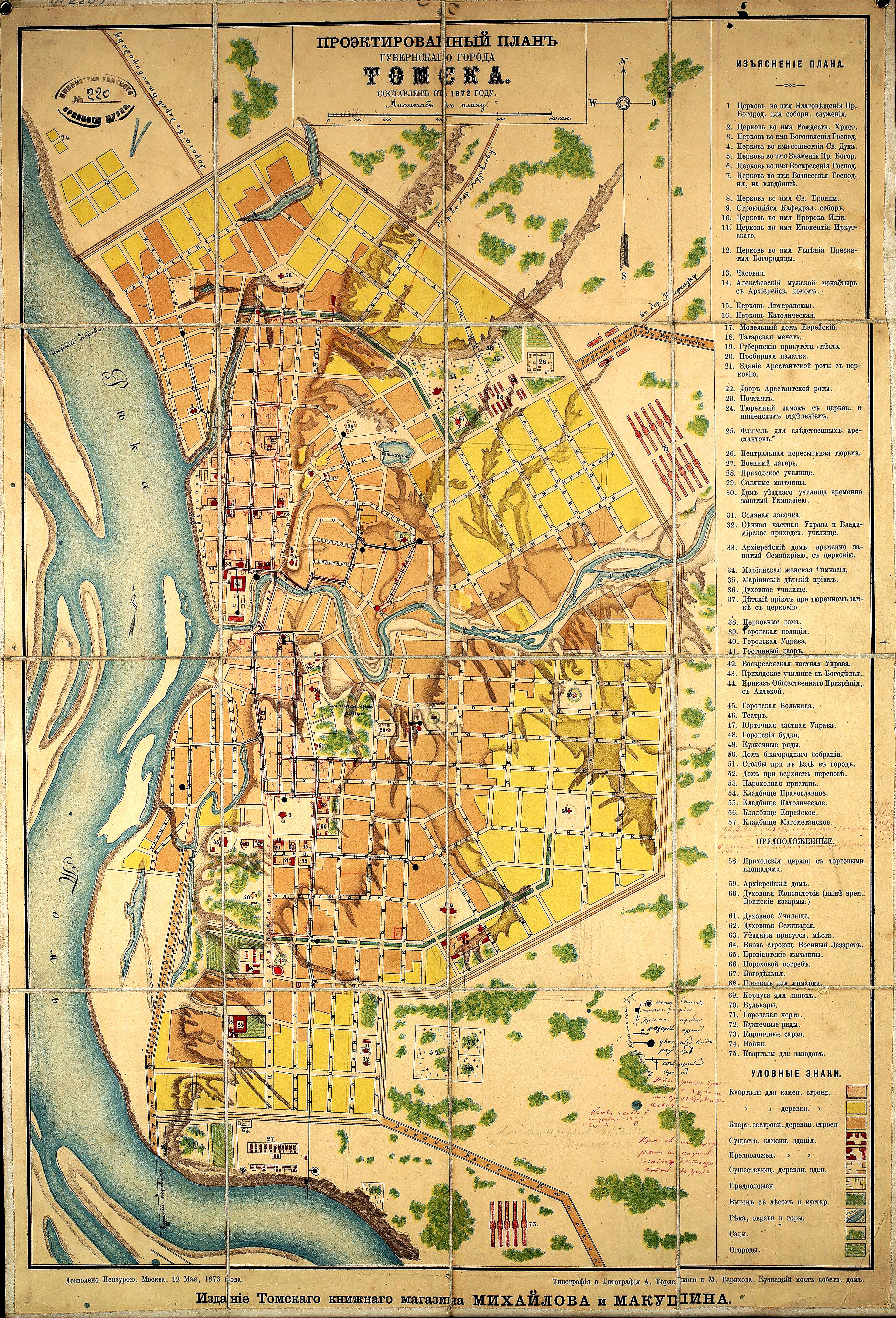 Map of Tomsk, 1872